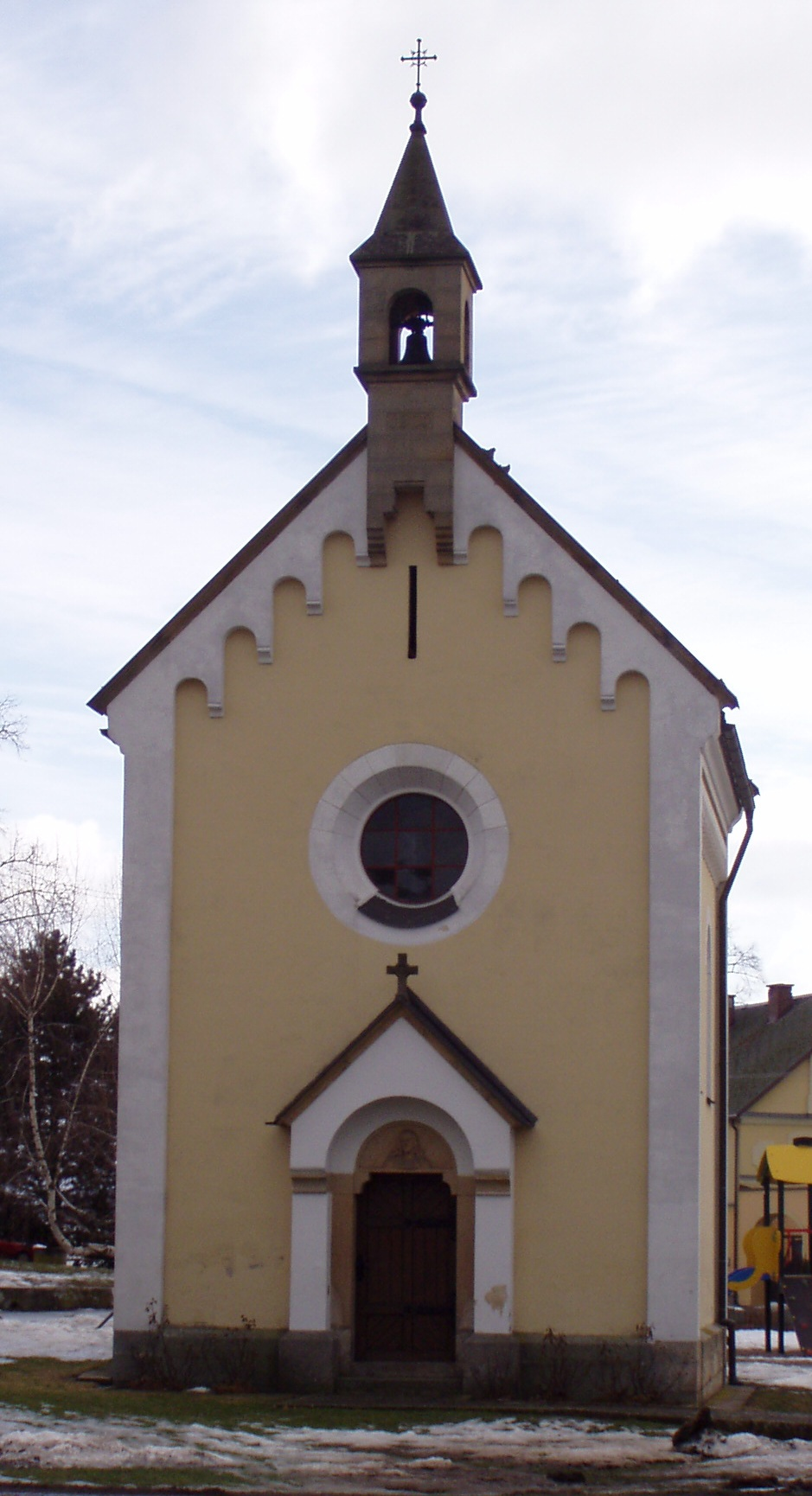 Dolany - Church of the Visitation of Our Lady